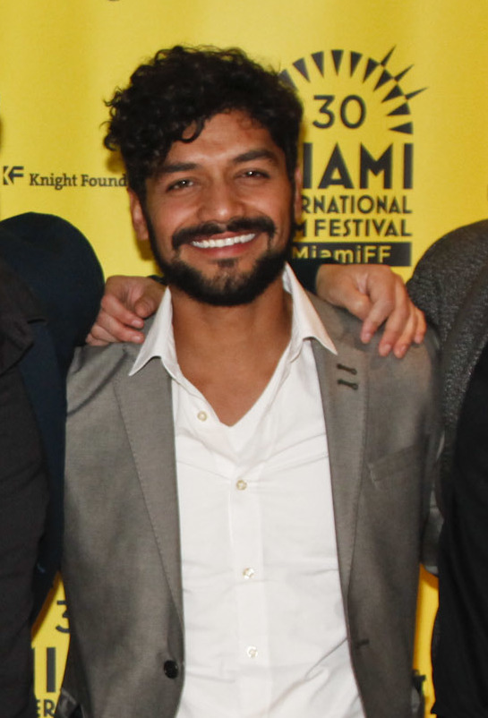 The cast & crew of Cinco De Mayo: The Battle at MIFF 2013: World Premiere at Regal South Beach Cinemas on March 7, 2013. From left: Producer Paco Gallastegui, actor JC Montes Roldan, actress Liz Gallardo, director Rafa Lara, actor Christian Vázquez and Antonio Merlano